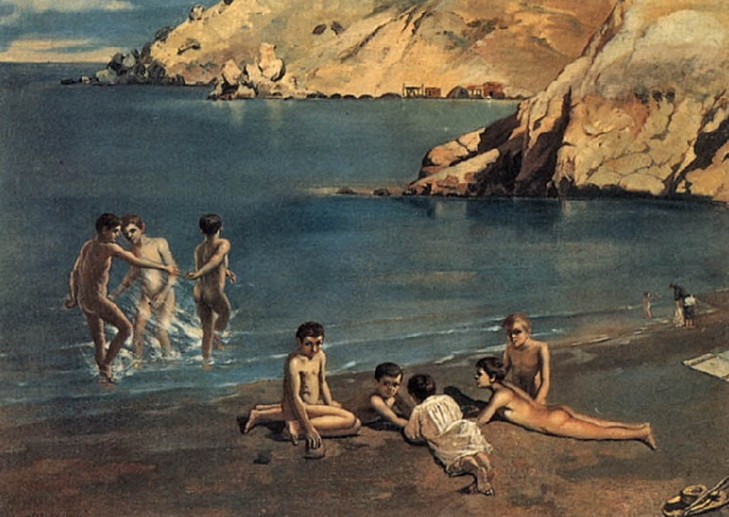 Kids on the beach